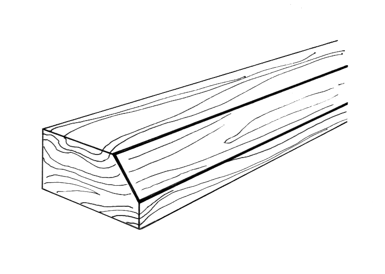 line art drawing of a bevel